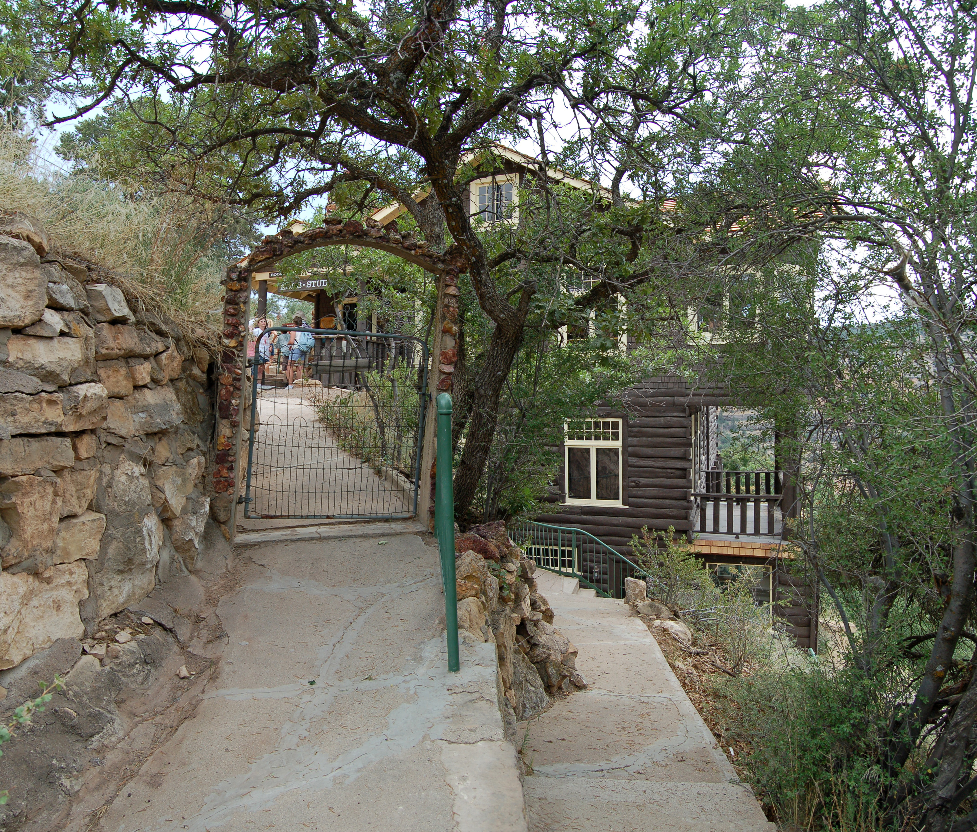 Grand Canyon National Park Historic District: South Rim. Kolb Studio walkway and gate to lower levels. Ellsworth L. Kolb and Emery C. Kolb played an important role in the early development of visitor services to the Grand Canyon. Ellsworth and Emery came to the Canyon in 1902. Ellsworth worked as a bellman in the Bright Angel Hotel. The brothers eventually bought a photographic studio in Williams, Arizona and brought the equipment to the Grand Canyon. Their business started out photographing parties going down the Bright Angel Trail. Because water supplies were limited on the rim of the Canyon, they would photograph the mule passengers then run 4 1/2 miles to Indian Garden where they had set up a photographic lab. Water was available here for processing the film. Then they returned to the rim of the Canyon with the processed pictures ready for the mule passengers on their return. Kolb Studio was constructed on this site from 1904 through 1926. It was a 2 1/2 story structure with the upper level on the rim of the Canyon. This building saw 23 years of expansion and alterations that brought it to its present day appearance. NPS Photo by Michael Quinn. To plan a visit to Grand Canyon National Park